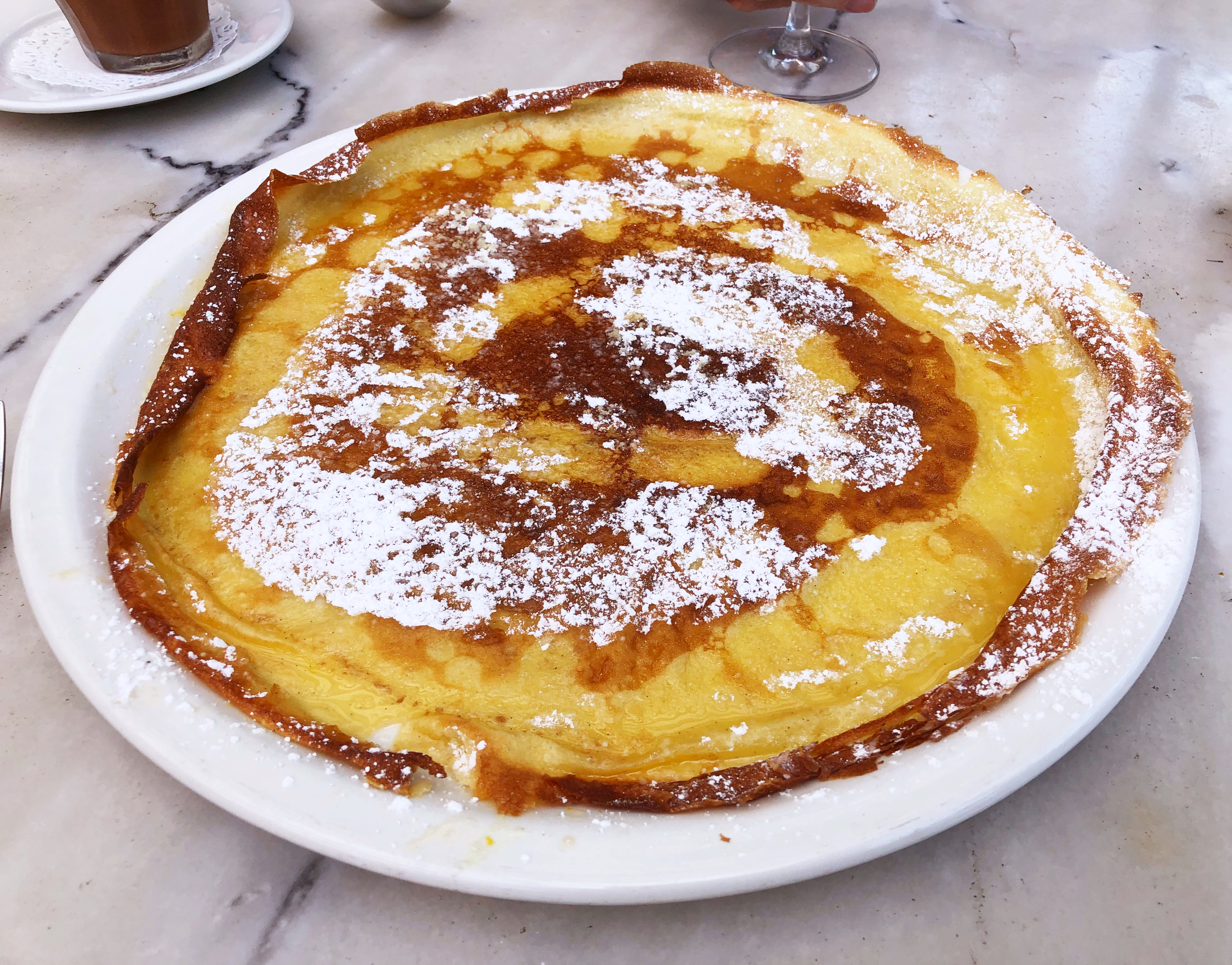 Crêpe Suzette (Warm crêpe with orange butter and orange liquor) at Bistro Jeanty in Yountville, California.